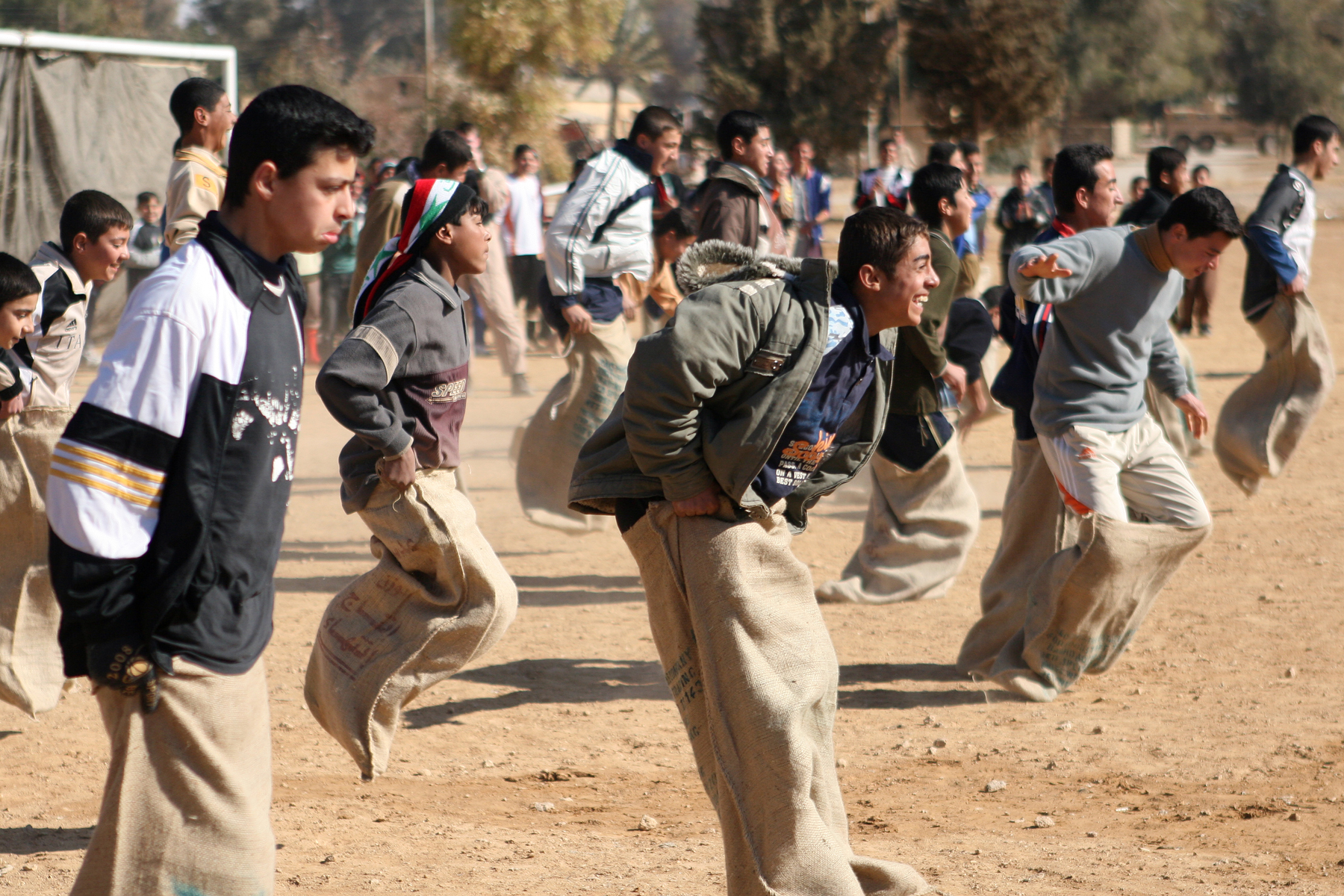 Iraqi boys hop to the finish line during the potato sack race portion of a field meet put on by Company I of Task Force 3rd Battalion, 2nd Marine Regiment, Regimental Combat Team 5, in the village at the T-1 pumping station in Iraq. Nearly 300 Iraqi boys and girls participated in the day of food, fun and activities provided by the Marines.